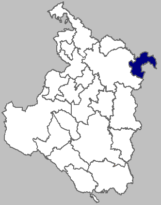 Self-made map of Lasinja municipality within Karlovac County.